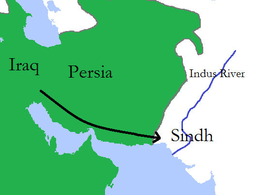 A map of Muhammad bin Qasim's expedition into Sindh in 711 AD.